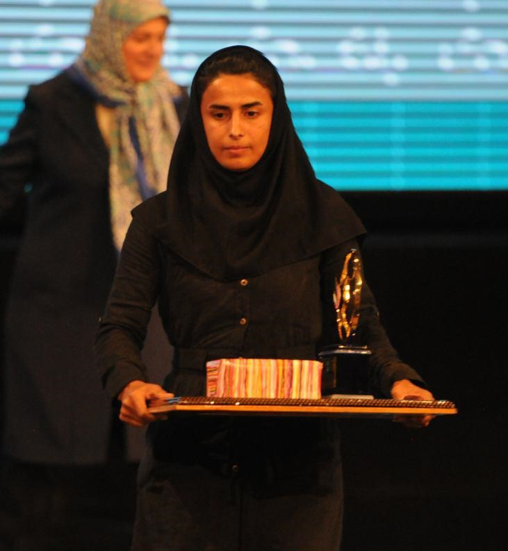 Ghomi receiving her award as the top goalscorer of 2014-2015 league